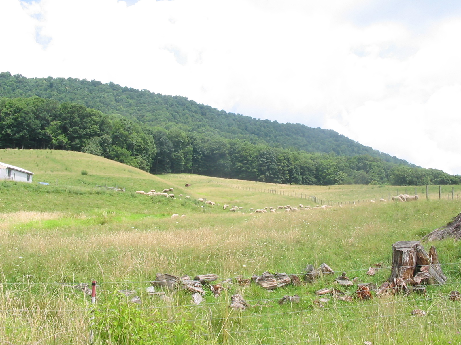 Image taken by me for Wikipedia